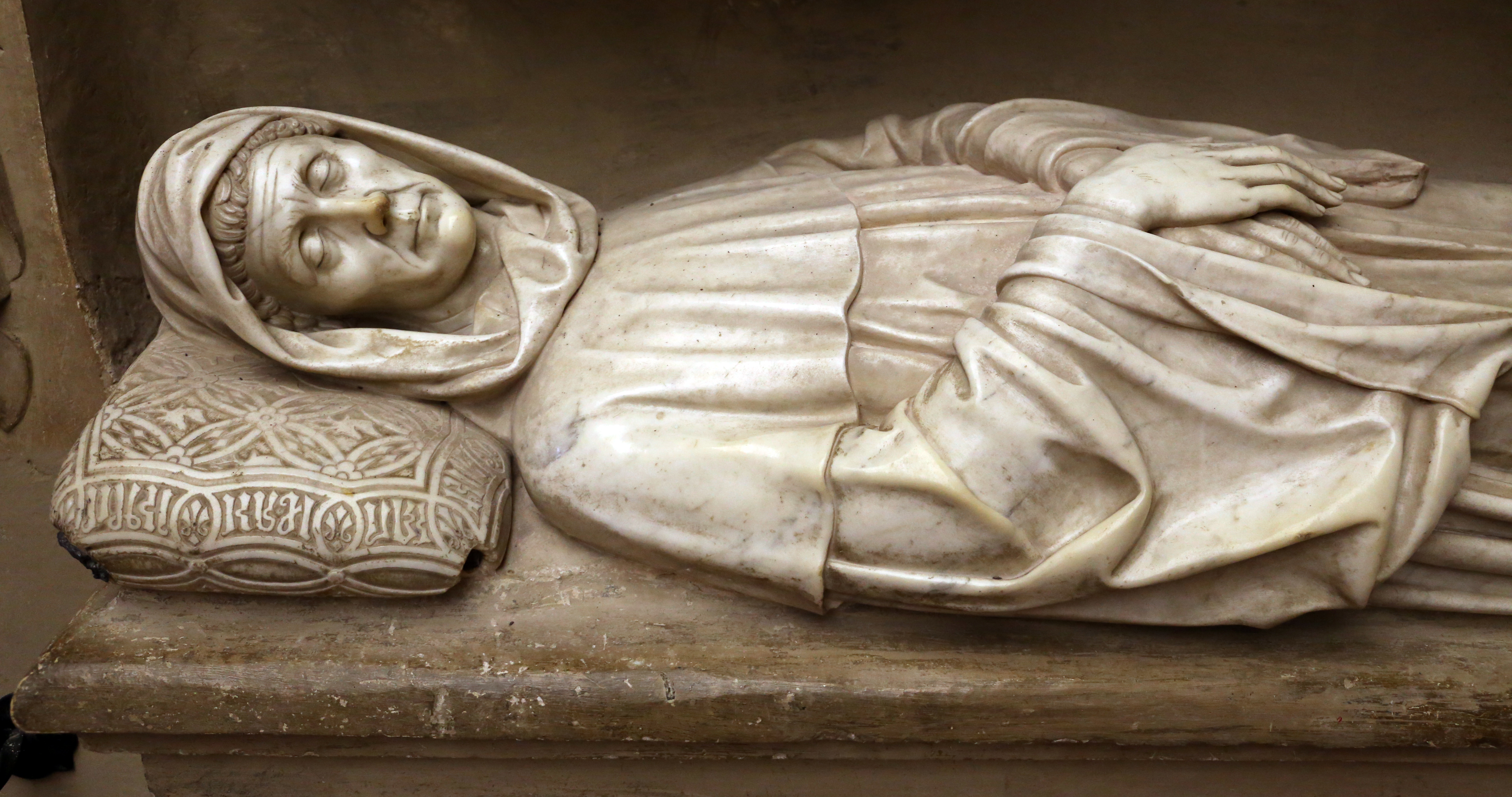 Monument to Bartolomeo Aragazzi by Michelozzo